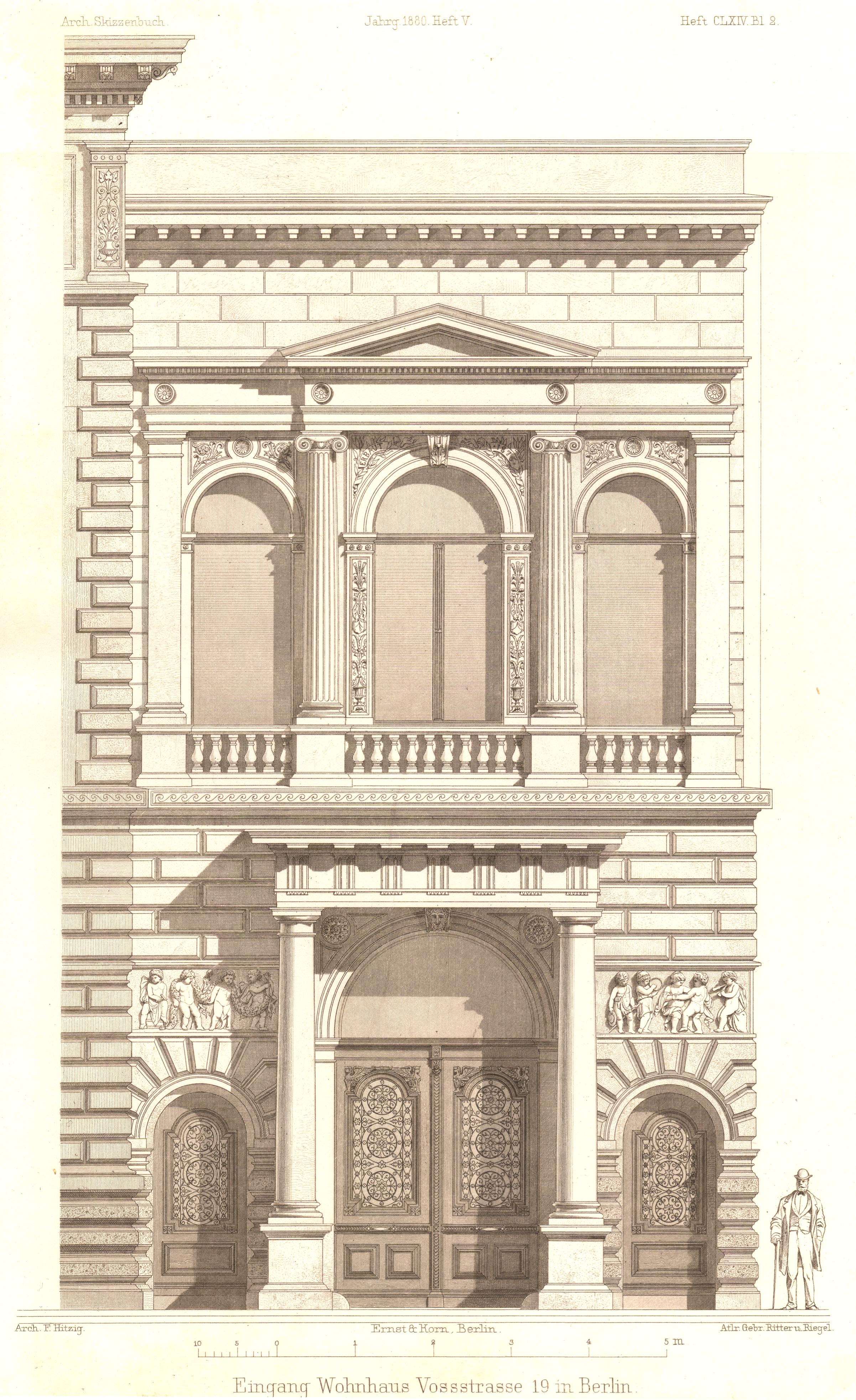 Berlin - entrance of the Legation of Saxony building (Vossstrasse 19), demolished in 1938 for the construction of the New Reich Chancellery.